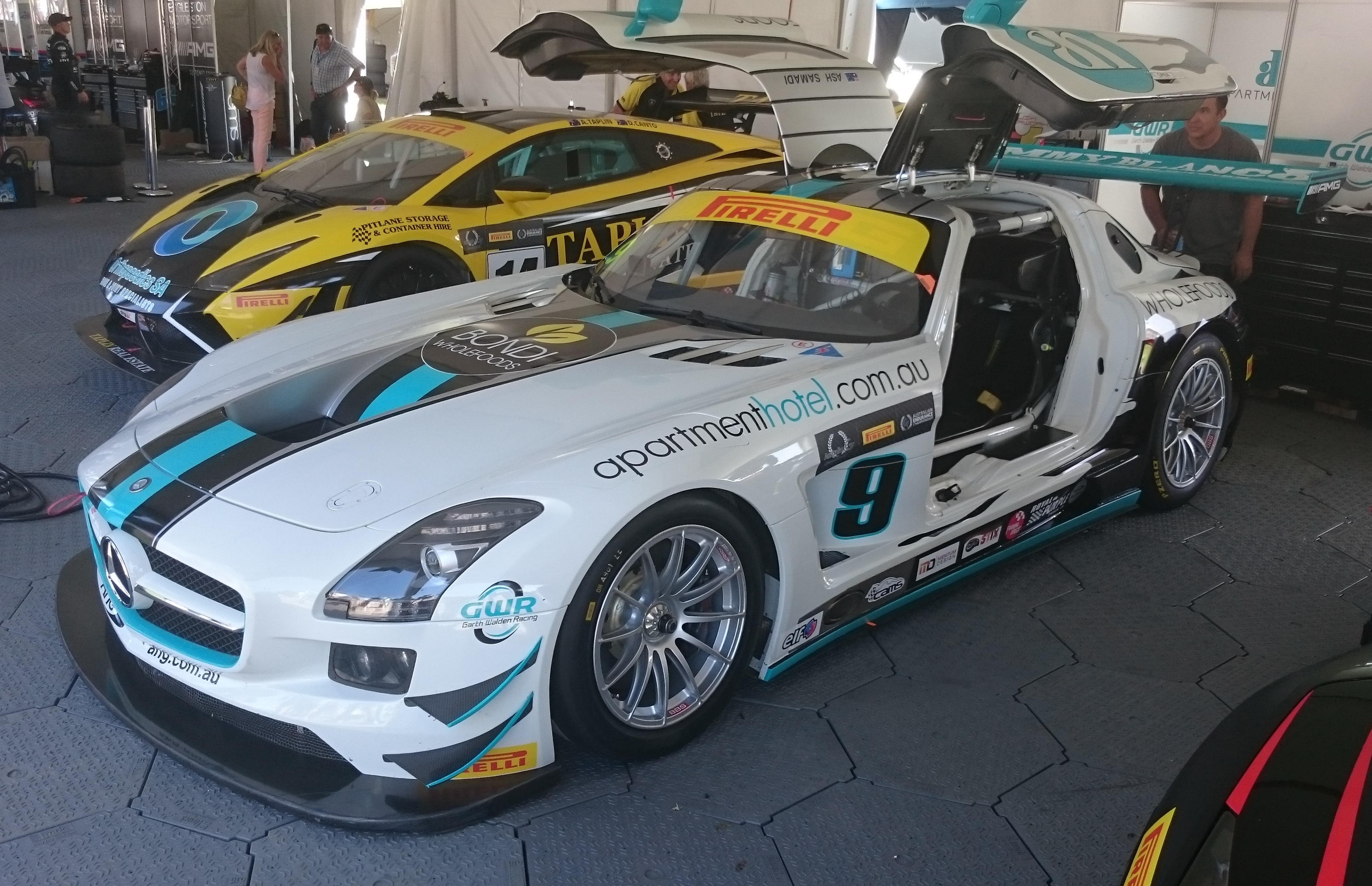 The Mercedes-Benz AMG SLS of Ash Samardi at the Adelaide Parklands round of the 2016 Australian GT Championship.